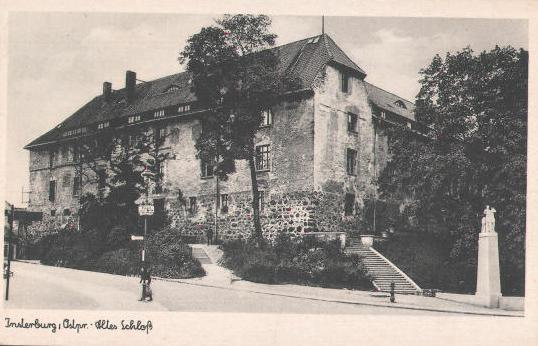 Old castle in Chernyakhovsk (before 1945 Insterburg) Insterburger Schloss